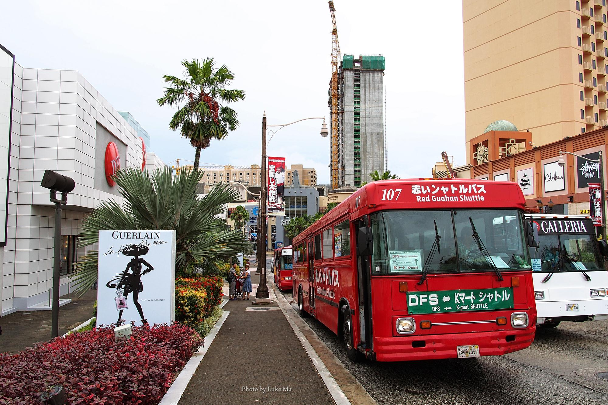 關島 購物大道 接駁車 by Olympus OM-D E-M5 Panasonic Lumix G X VARIO 12-35mm F2.8